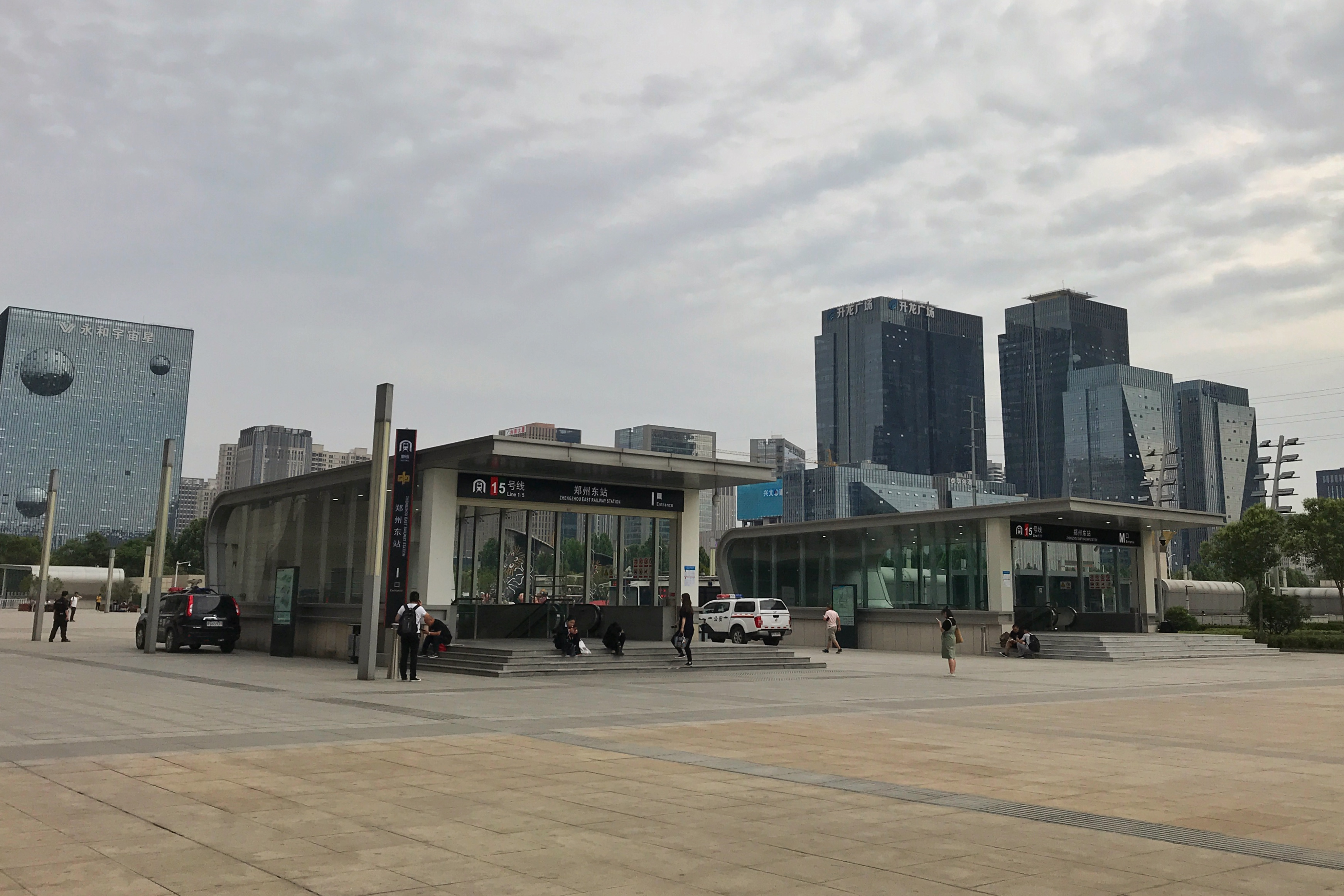 Entrance I and M of Zhengzhou East Railway Station (Metro)